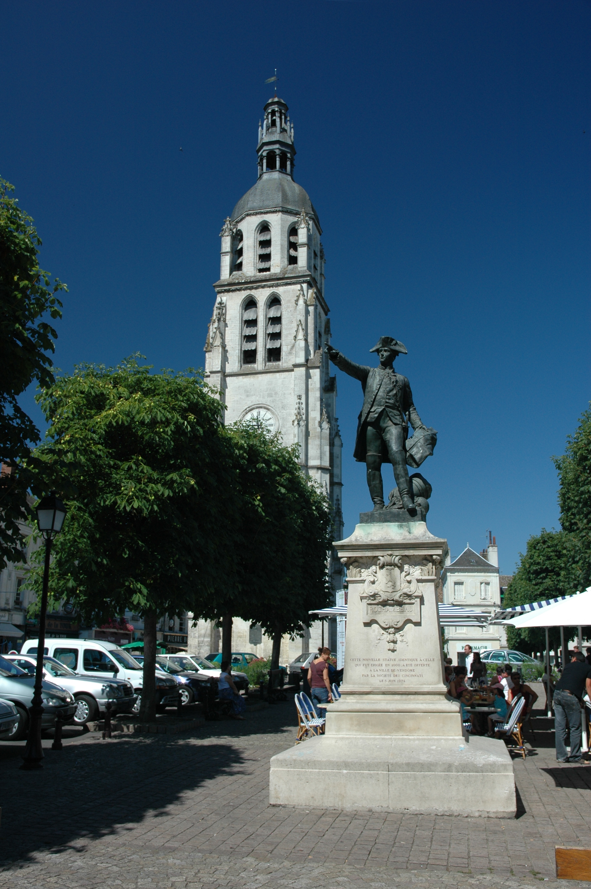 Vendôme, Loir-et-Cher, France